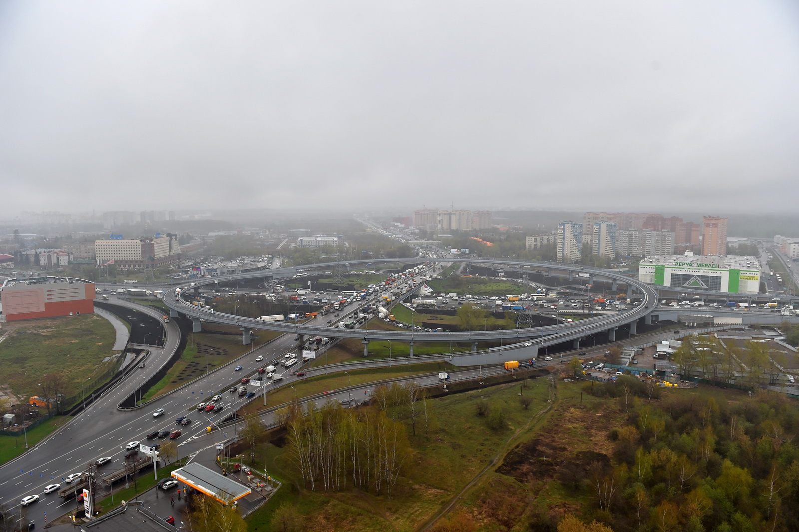 Interchange of MKAD and Kashirskoye Highway in Moscow